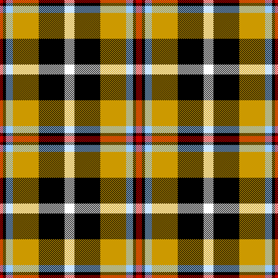 Digital representation of the Cornish National Tartan. The thread-count used to create this image was Red6, Black6, Blue14, Yellow52, Black52, White10.